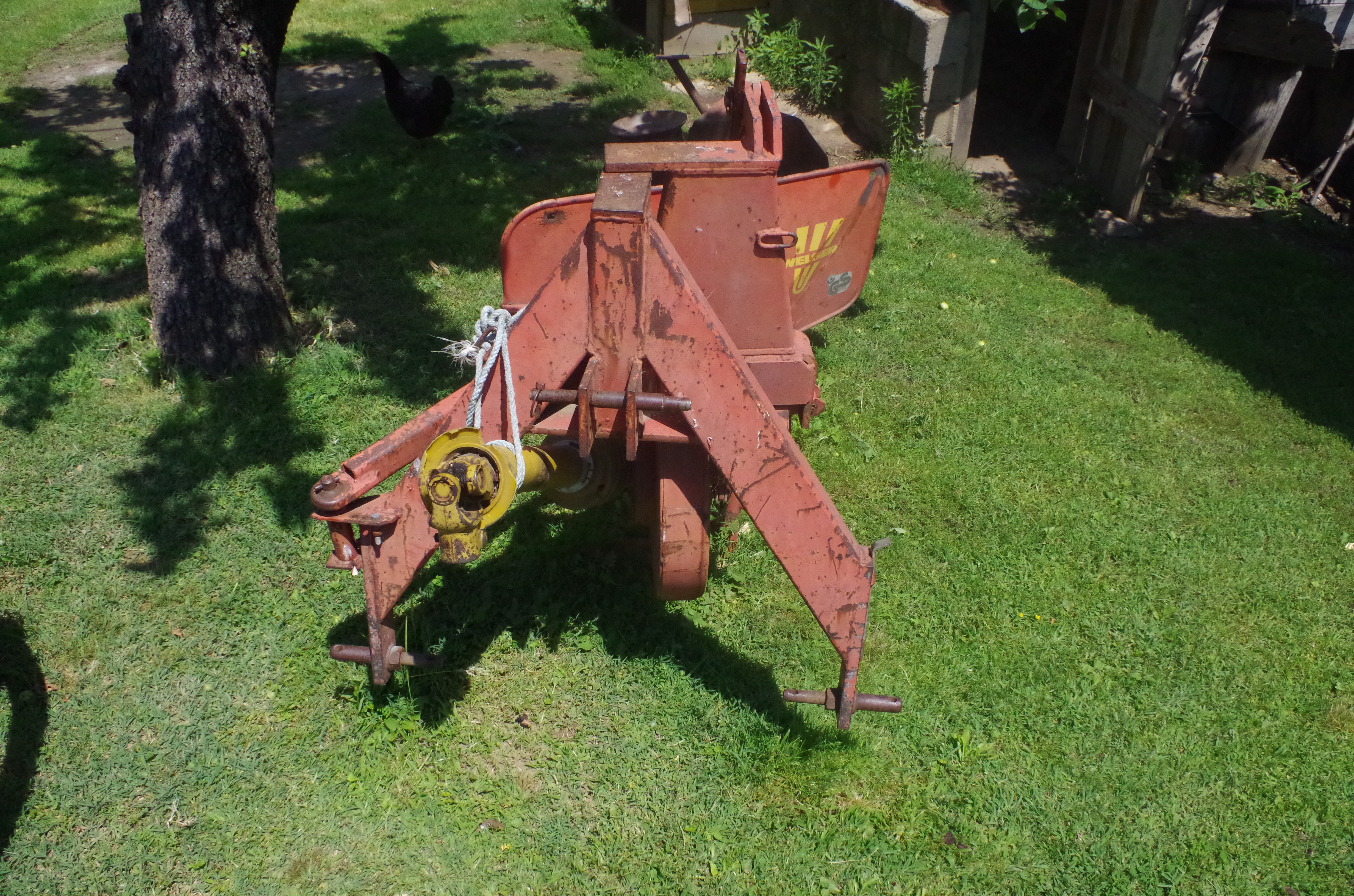 Flail mower for wheat, clover and agricultural crops in the village of Koleshino, near Strumica, Macedonia